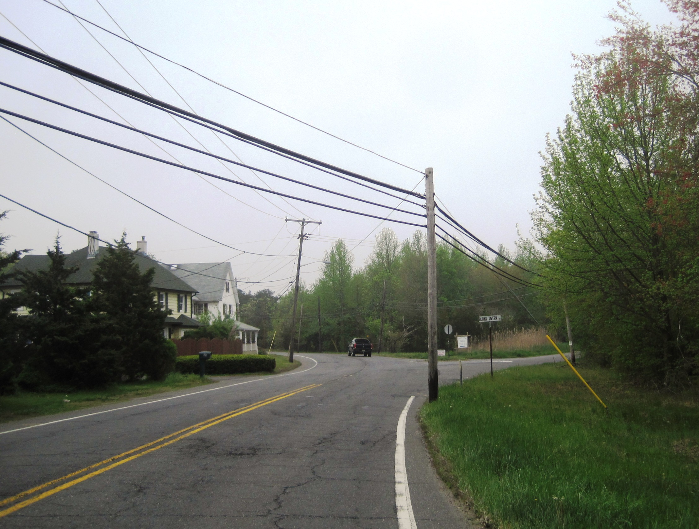 Photo showing Carrs Tavern, New Jersey, an unincorporated community within Millstone Township. Photo was taken along eastbound County Routes 526 and 571 approaching Burnt Tavern Road.